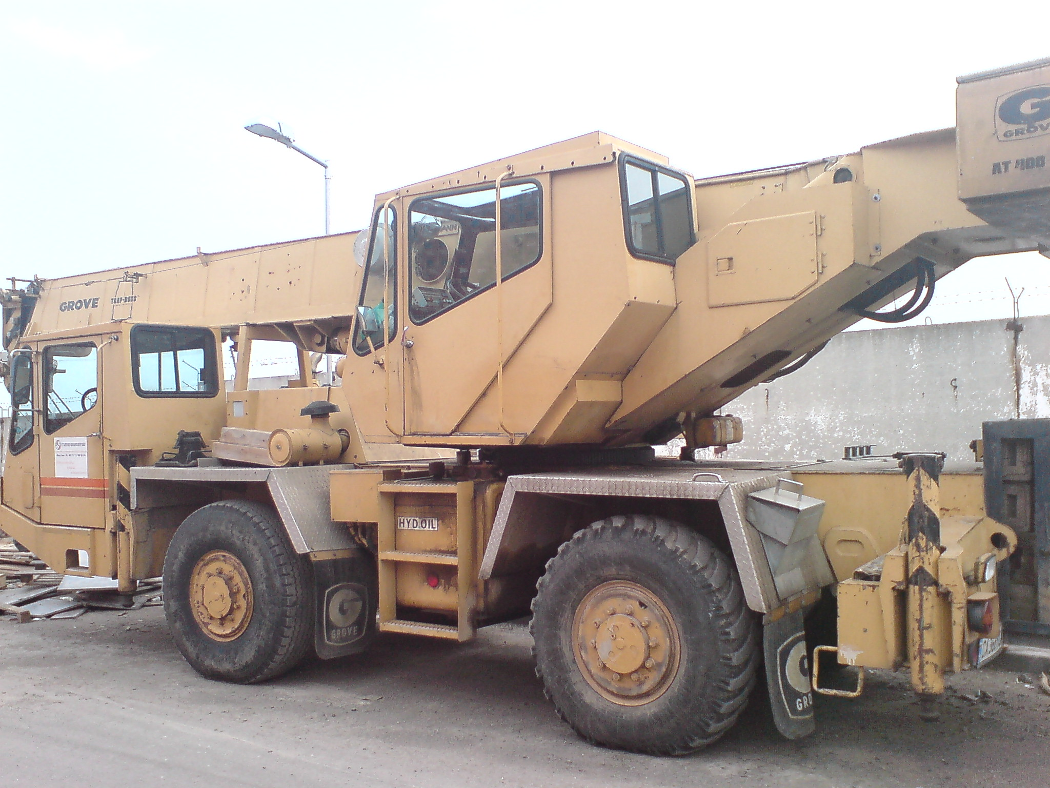 Crane Grove AT 400